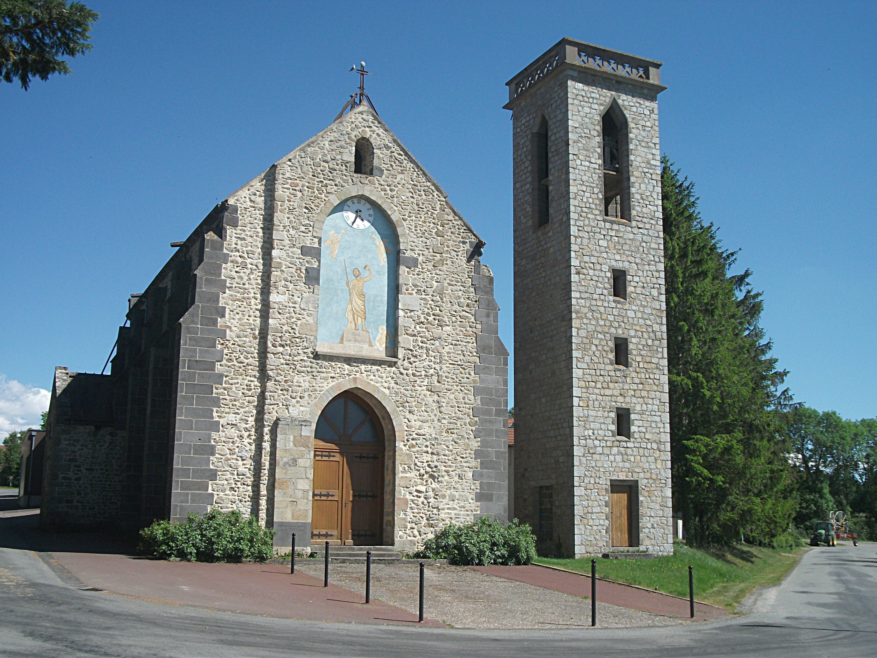 Church of Pouzol, Puy-de-Dôme, Auvergne-Rhône-Alpes, France. [18437]